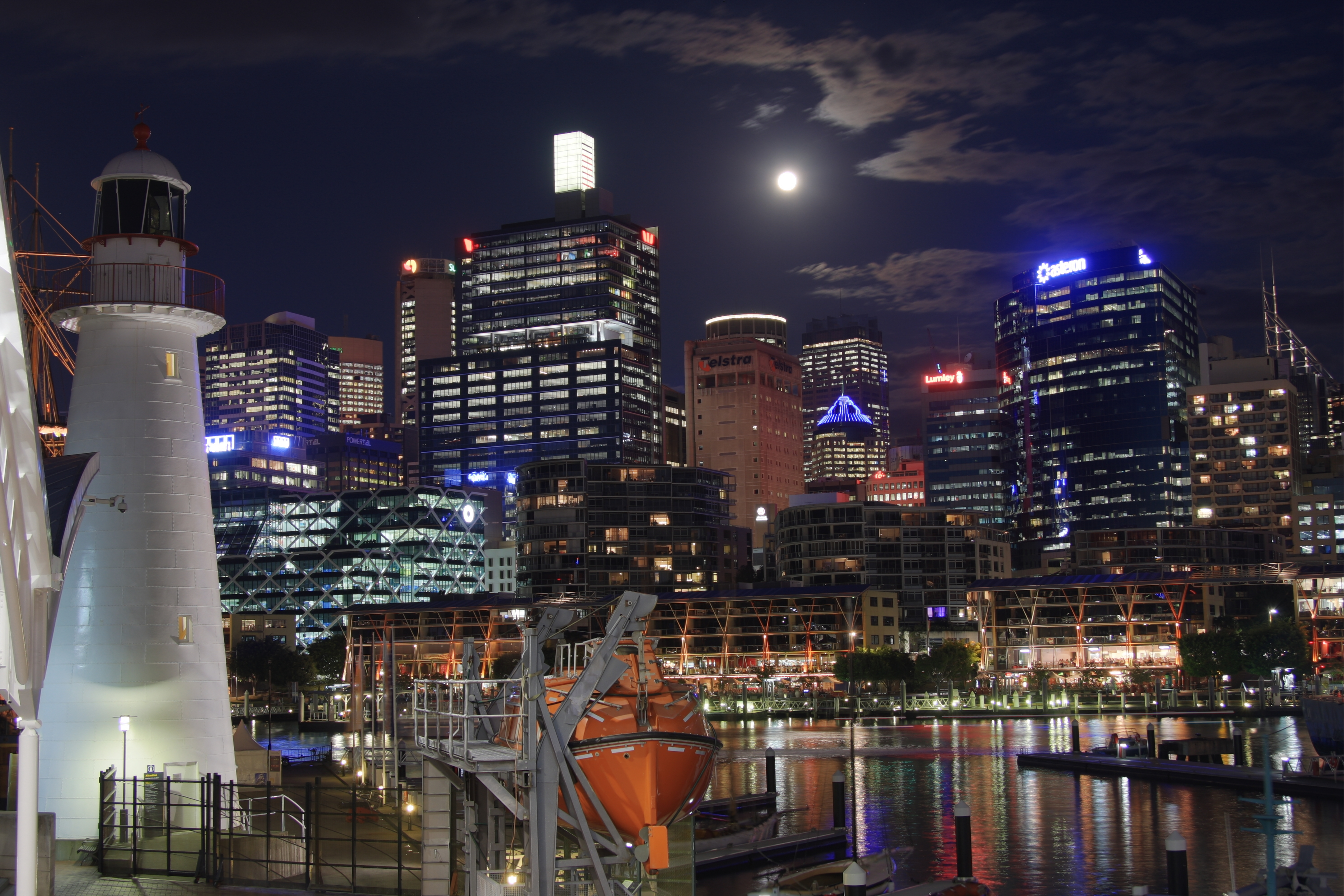 Darling Harbour, New South Wales